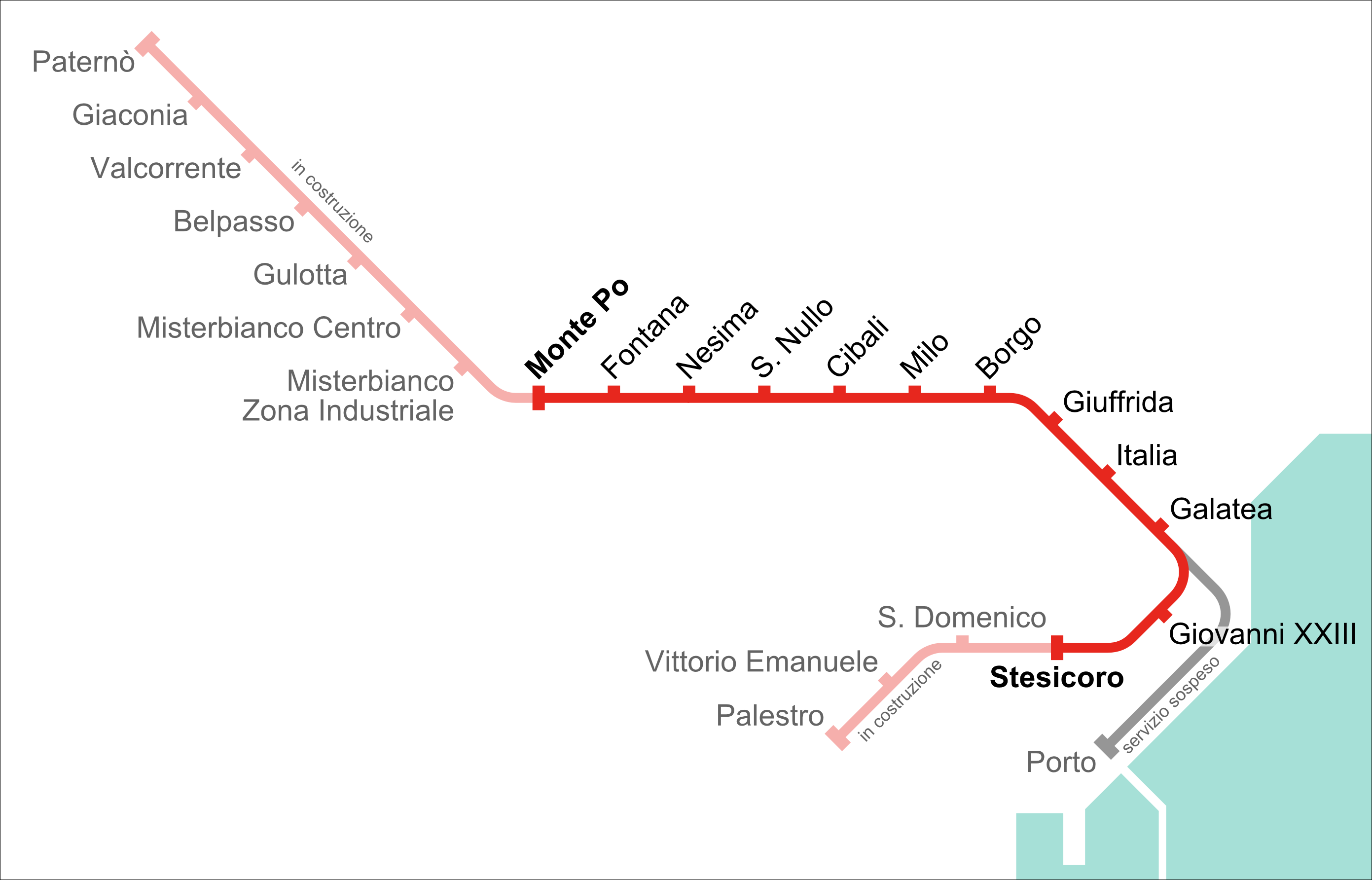 Map of the Catania Metro.